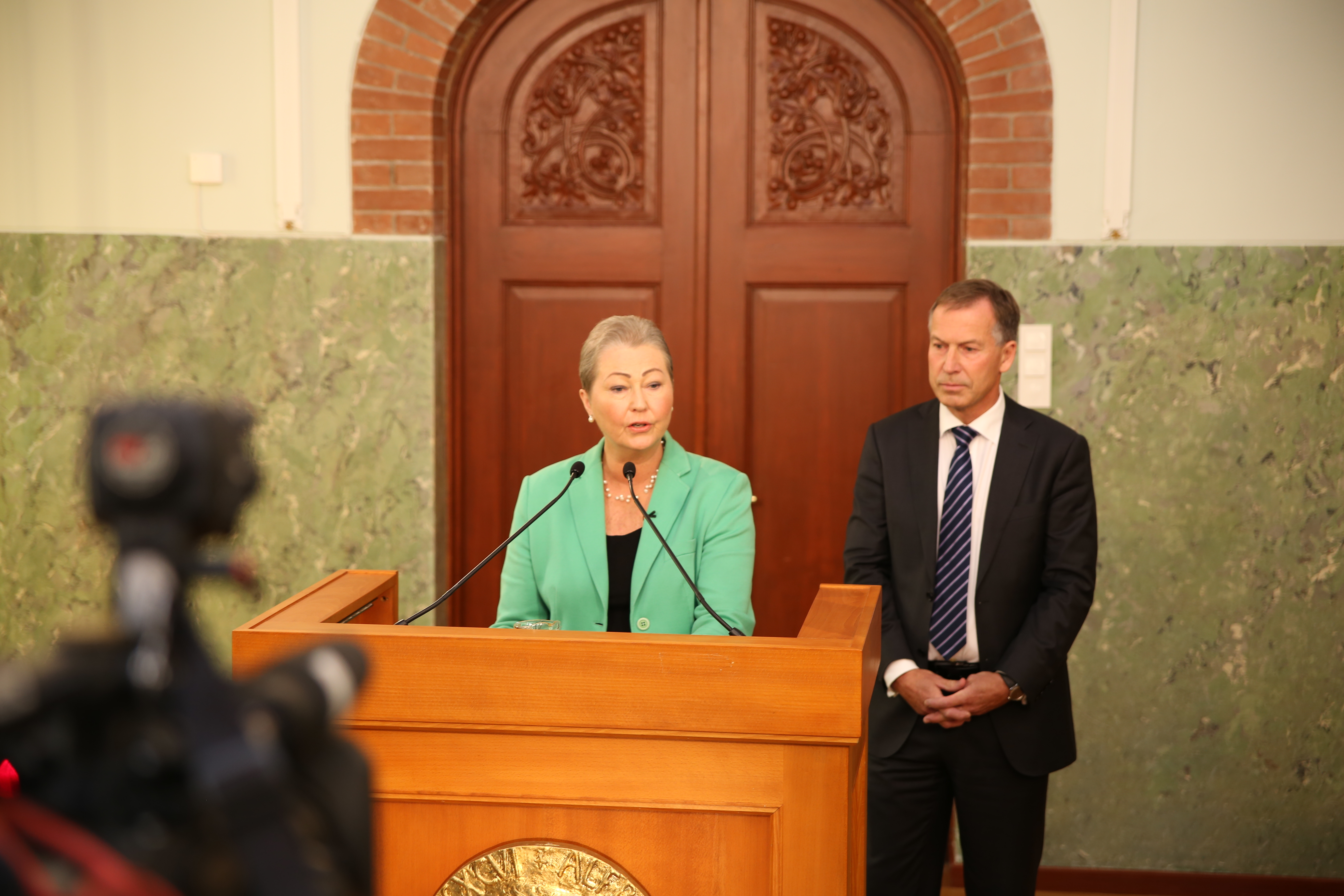 Announcement of the Nobel Peace Price for 2016 at the Nobel Institute in Oslo. Kaci Kullmann Five and Olav Njølstad from The Norwegian Nobel Committee, press